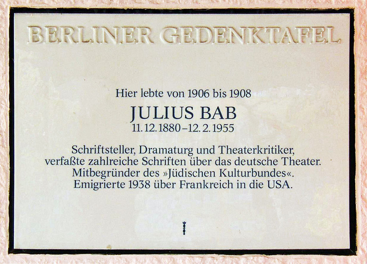 Berlin memorial plaque for Julius Bab in Berlin-Wilmersdorf, Germany